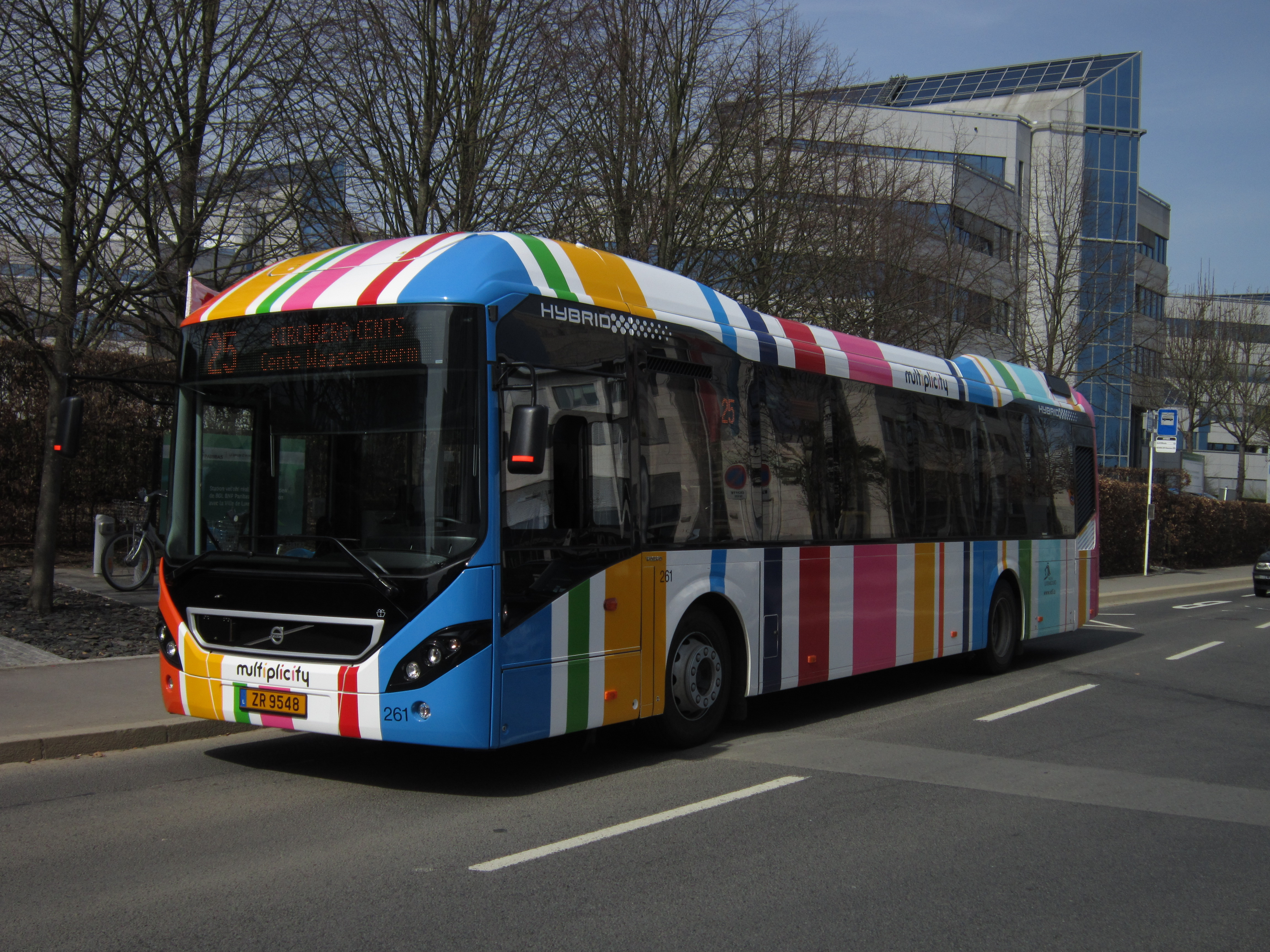 A Volvo 7900 Hybrid on the line 25 of Luxembourg's city network transportation.